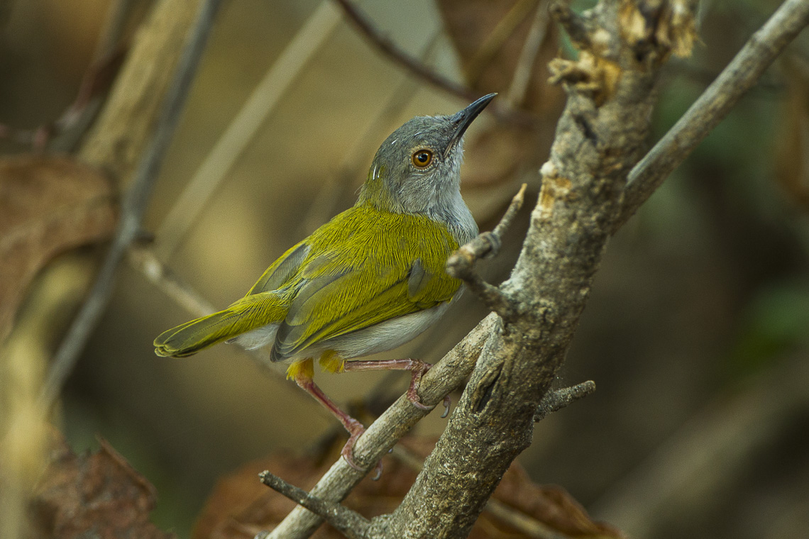 Green-backed Cameroptera - Malawi_S4E3341